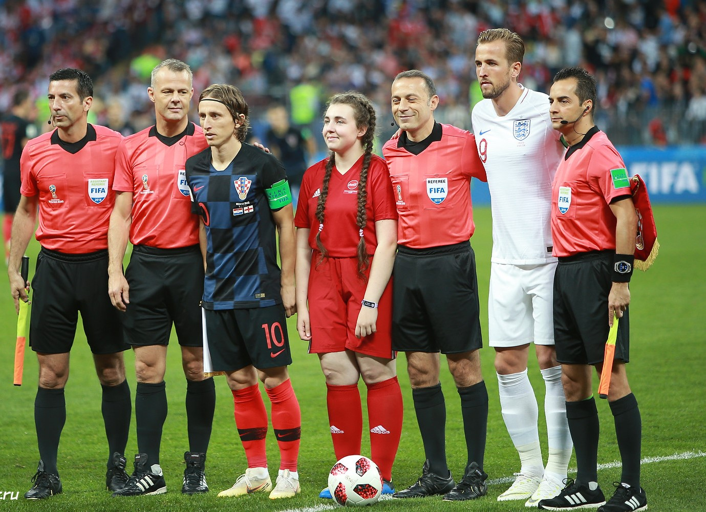 2018 FIFA World Cup Match 62, Croatia v England